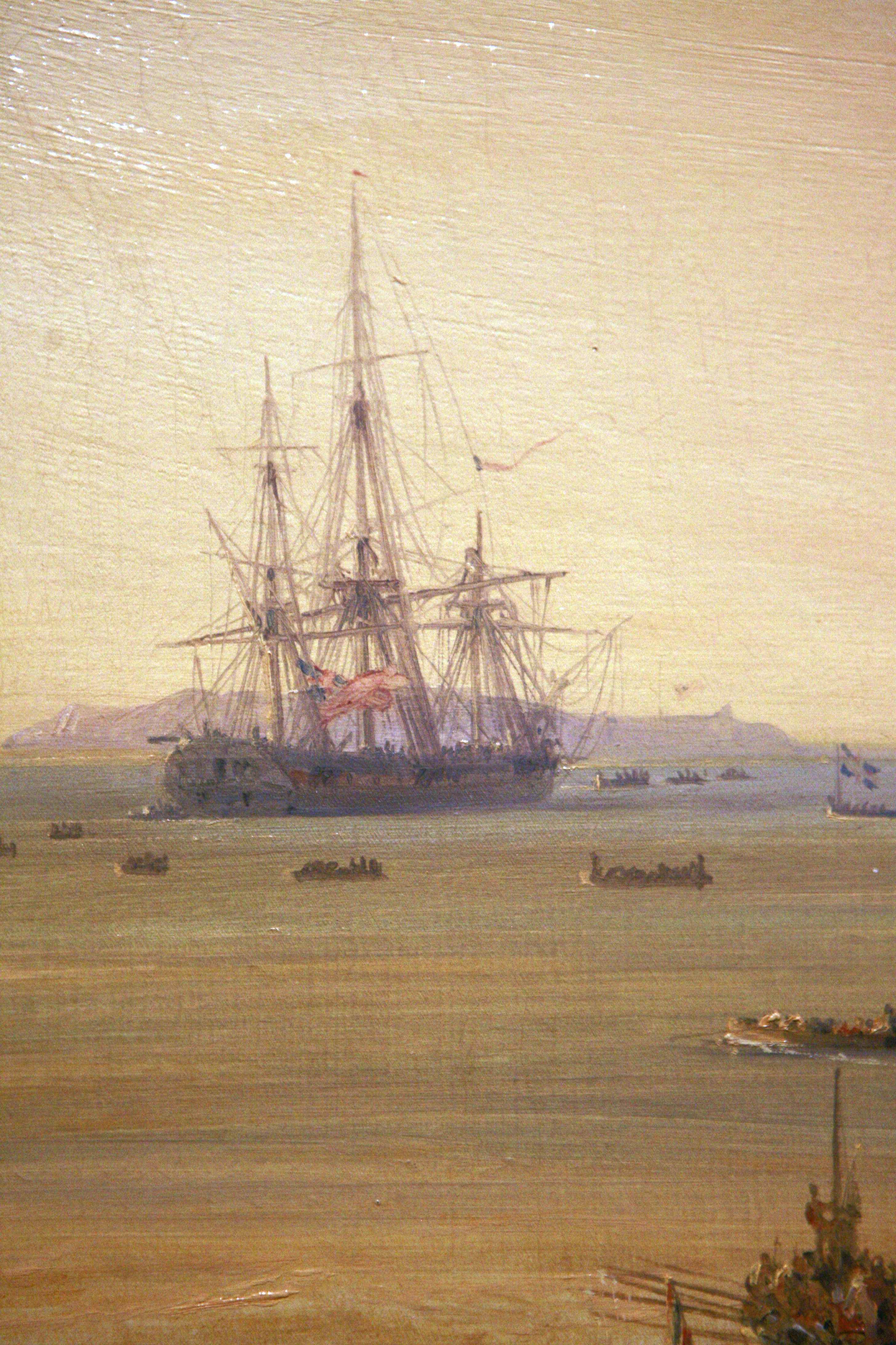 Detail of the Battle of Grand Port: HMS Iphigenia striking her colours (actually happened the next day)Oil on canvasCollection Musée national de la Marine Native nameMusée national de la MarineLocationParisCoordinates48° 51′ 43″ N, 2° 17′ 15″ E Established1827Web page control : Q1286709 VIAF: 19144648200974718522 ISNI: 0000 0001 2259 2914 LCCN: n50055356 Museofile: M5026 WorldCat institution QS:P195,Q1286709Source/Photographer Rama